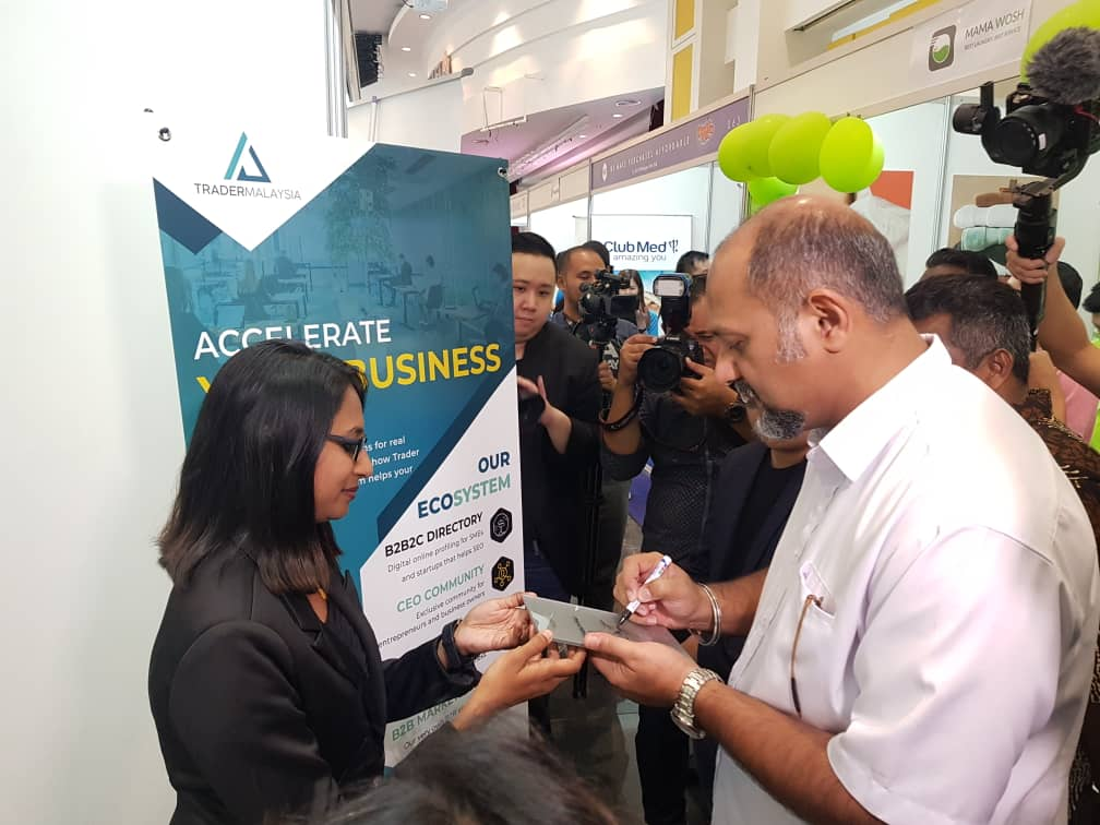 YB Gobind Singh Signing Plaque at PJ Startup Festival, viewed by the Chief Communication of Trader Malaysia in the sights of all the members of the media.